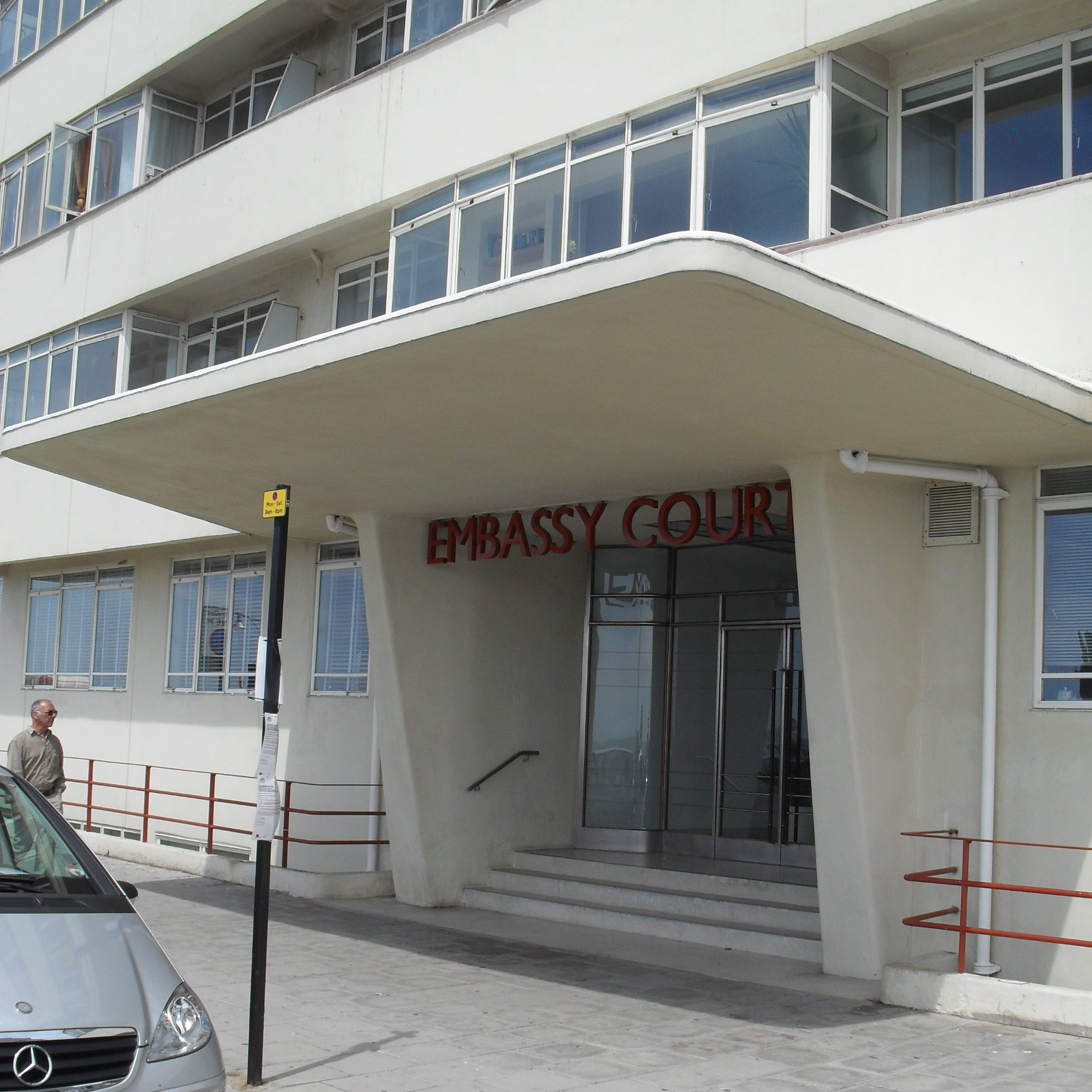 Embassy Court, junction of Kings Road and Western Street, Brighton, City of Brighton and Hove, England. A well-known Modernist landmark on the seafront on the border of Brighton and Hove, designed by Wells Coates in 1935–36. This view shows the main (Western Street) entrance with its Art Deco sign. Listed at Grade II* by English Heritage (NHLE Code 1381642)